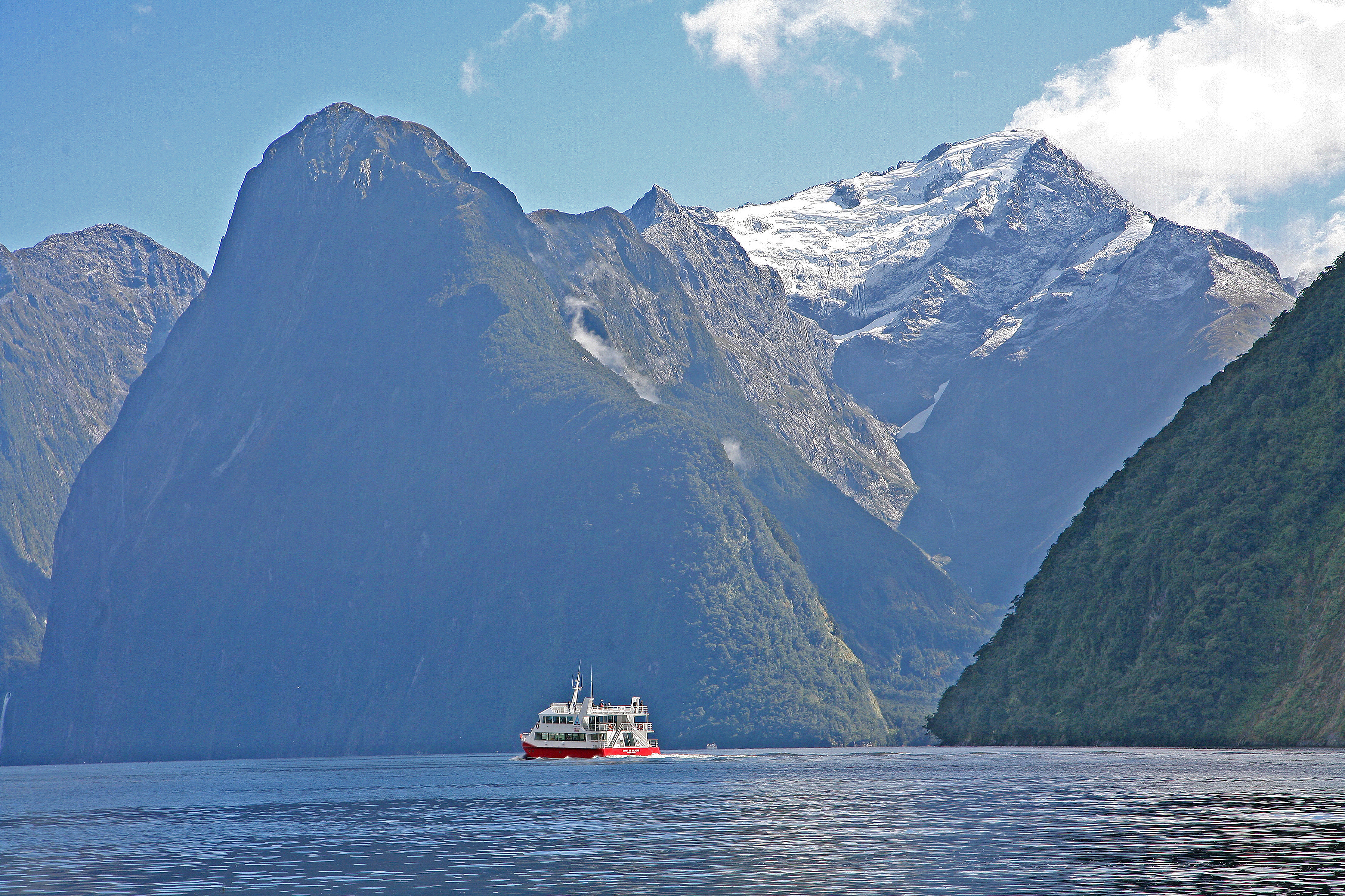 New Zealand: Milford Sound, a 14 km long fjord on the South Island, is part of the Fiordlands National Park and is a UNESCO World Heritage Site. The inlet is surrounded by steep mountains with a height of up to 1,680 meters above sea level and numerous waterfalls.